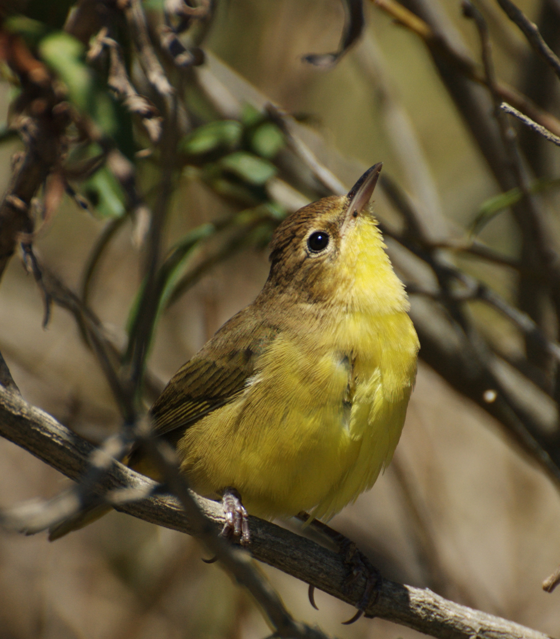 A female Southern Yellowthroat Geothlypis velata in Uruguay.